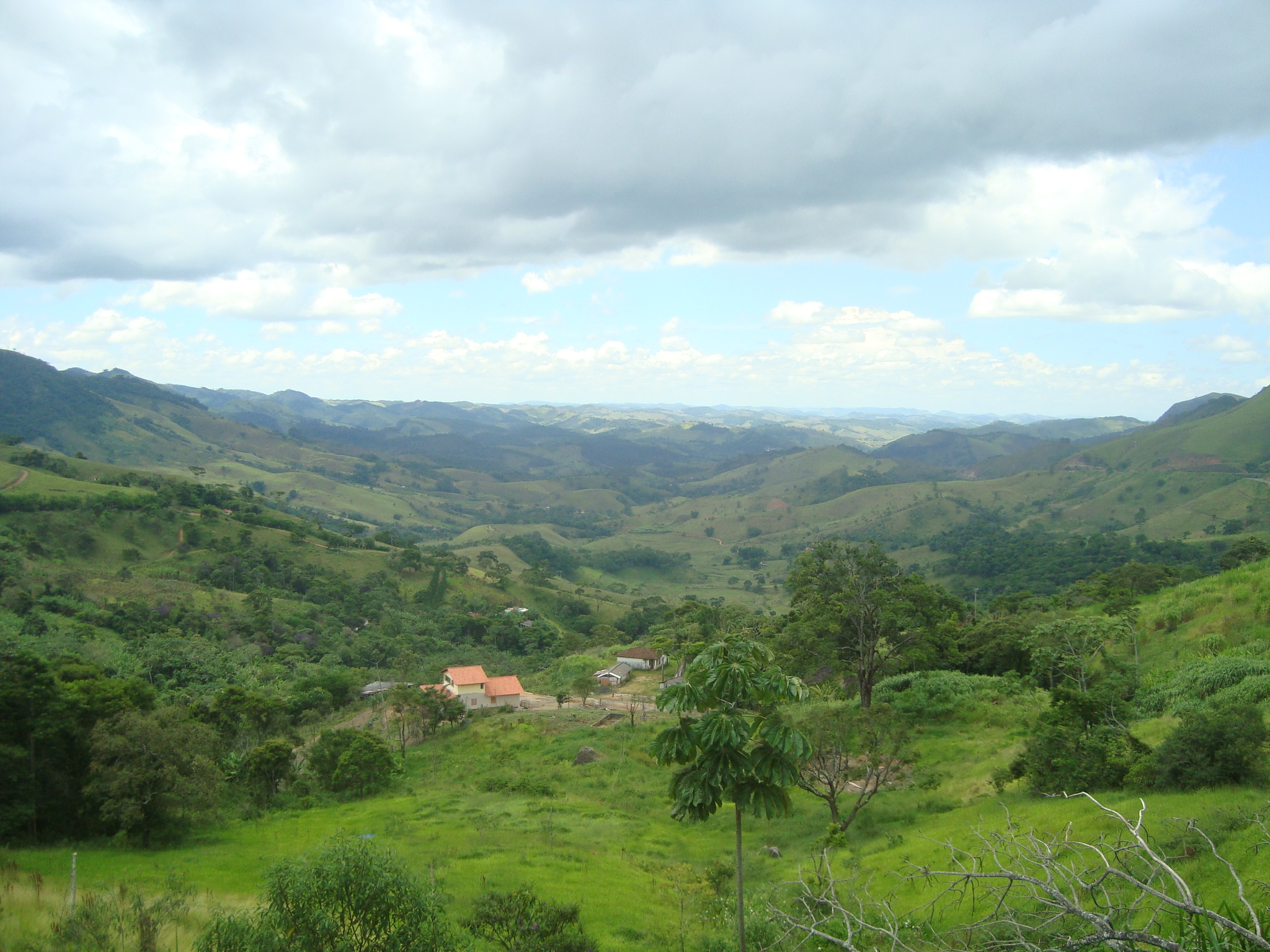 Rio Pomba valley in Santa Barbara do Tugurio, Minas Gerais, Brazil